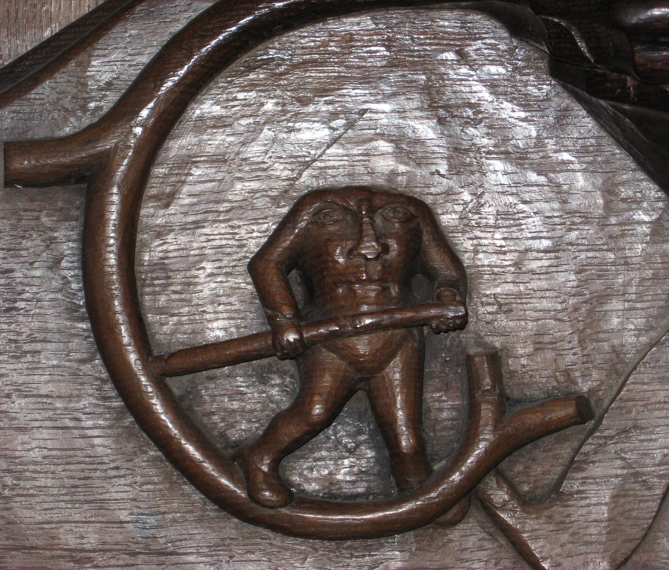 Blemya carved figure, Ripon Cathedral choir stall